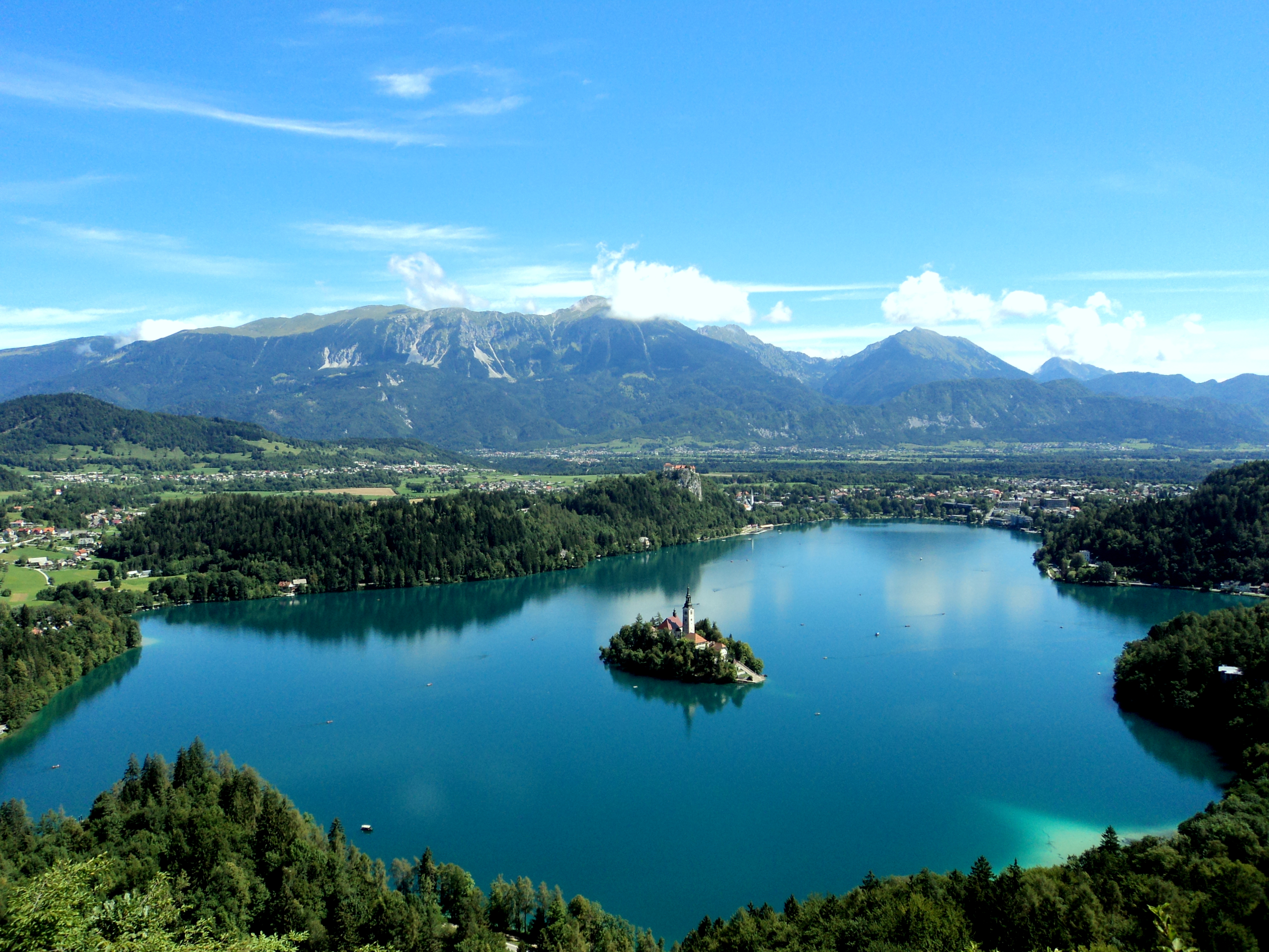 View of the lake from the mountain